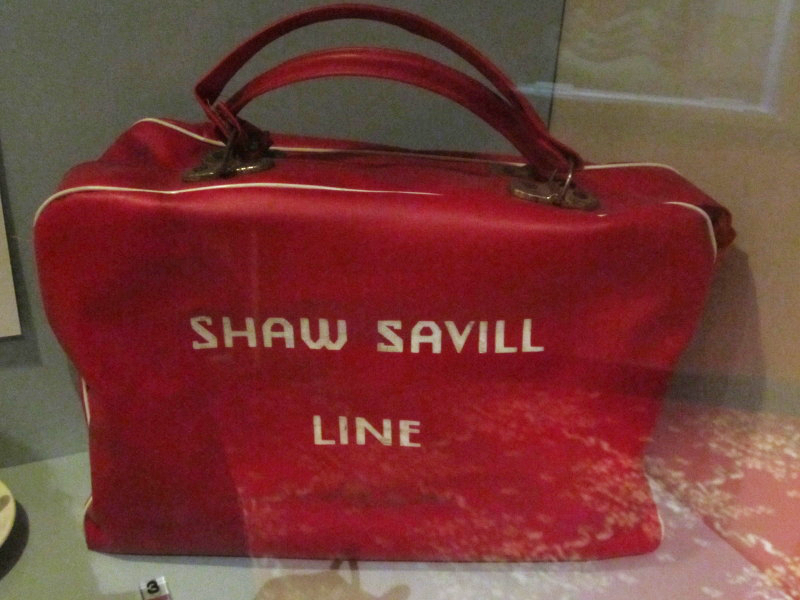 Shaw Savill Line holdall, Merseyside Maritime Museum, Liverpool, England.